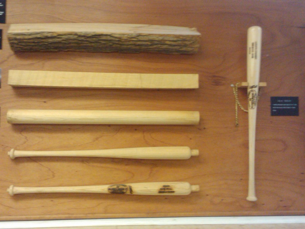 Making a baseball bat from log to finished bat.